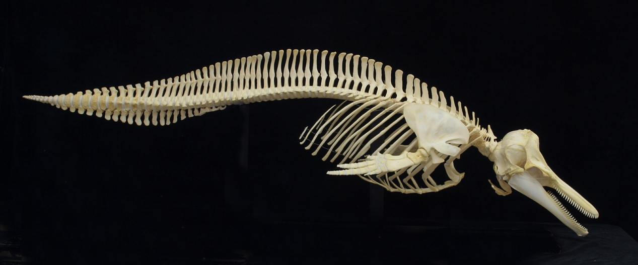 White-sided Dolphin Skeleton articulated by Skulls Unlimited International, on display at The Museum of Osteology.